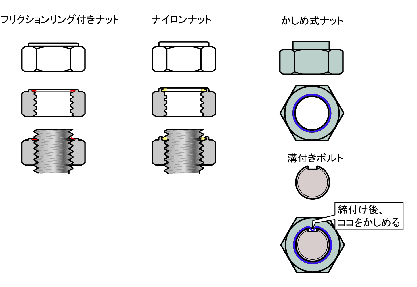 Screw (bolt) 22D-J